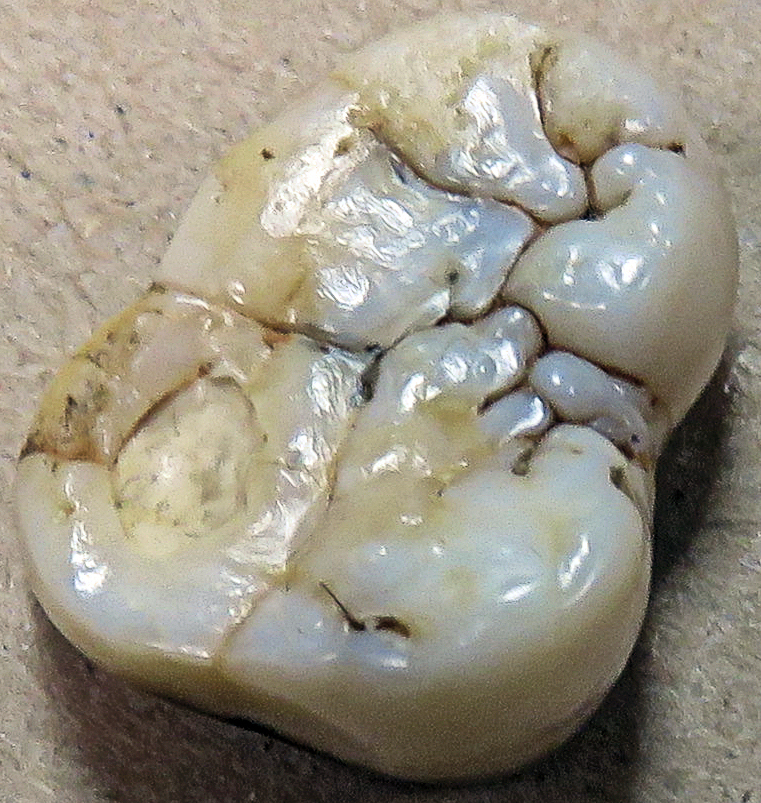 Holotype (molar) of Giganthopithecus blacki